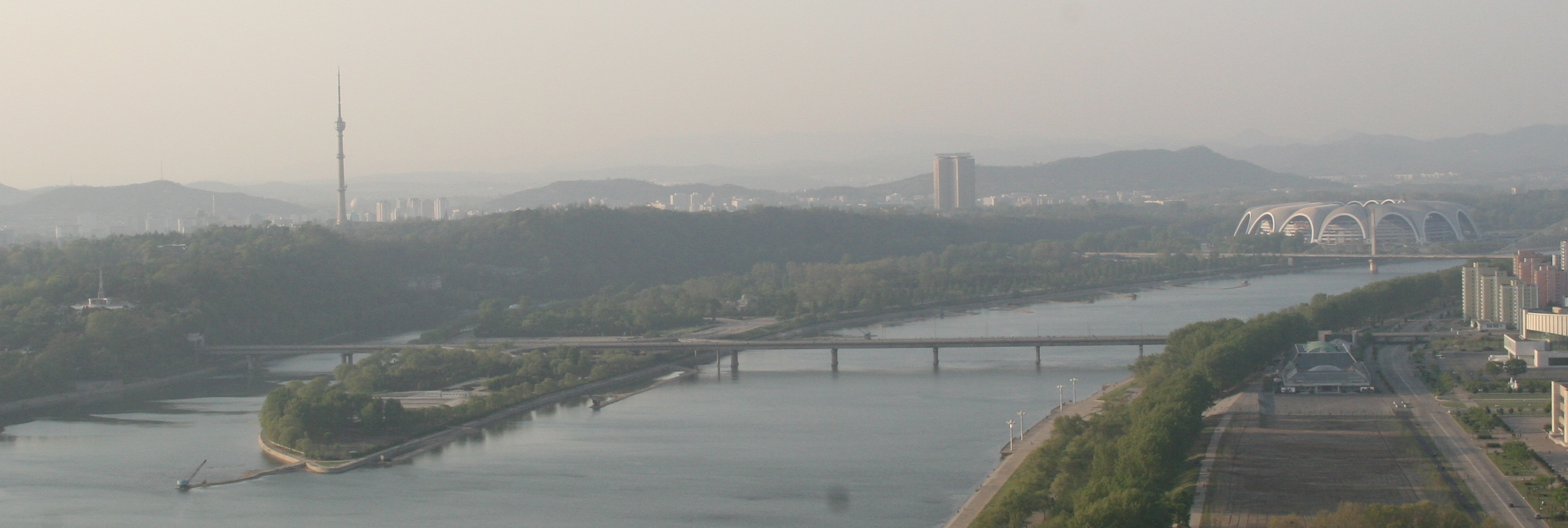 A view of Pyongyang. Facing north from the Juche Tower, Okryu Bridge and behind it Rungra Islet are visible. On the left is Moran Hill.